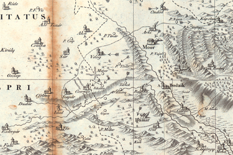 The first earthquake map of the world (1810 Mór earthquke, Hungary).